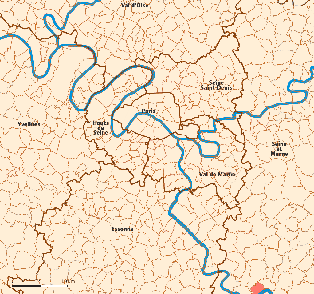 Created map myself.